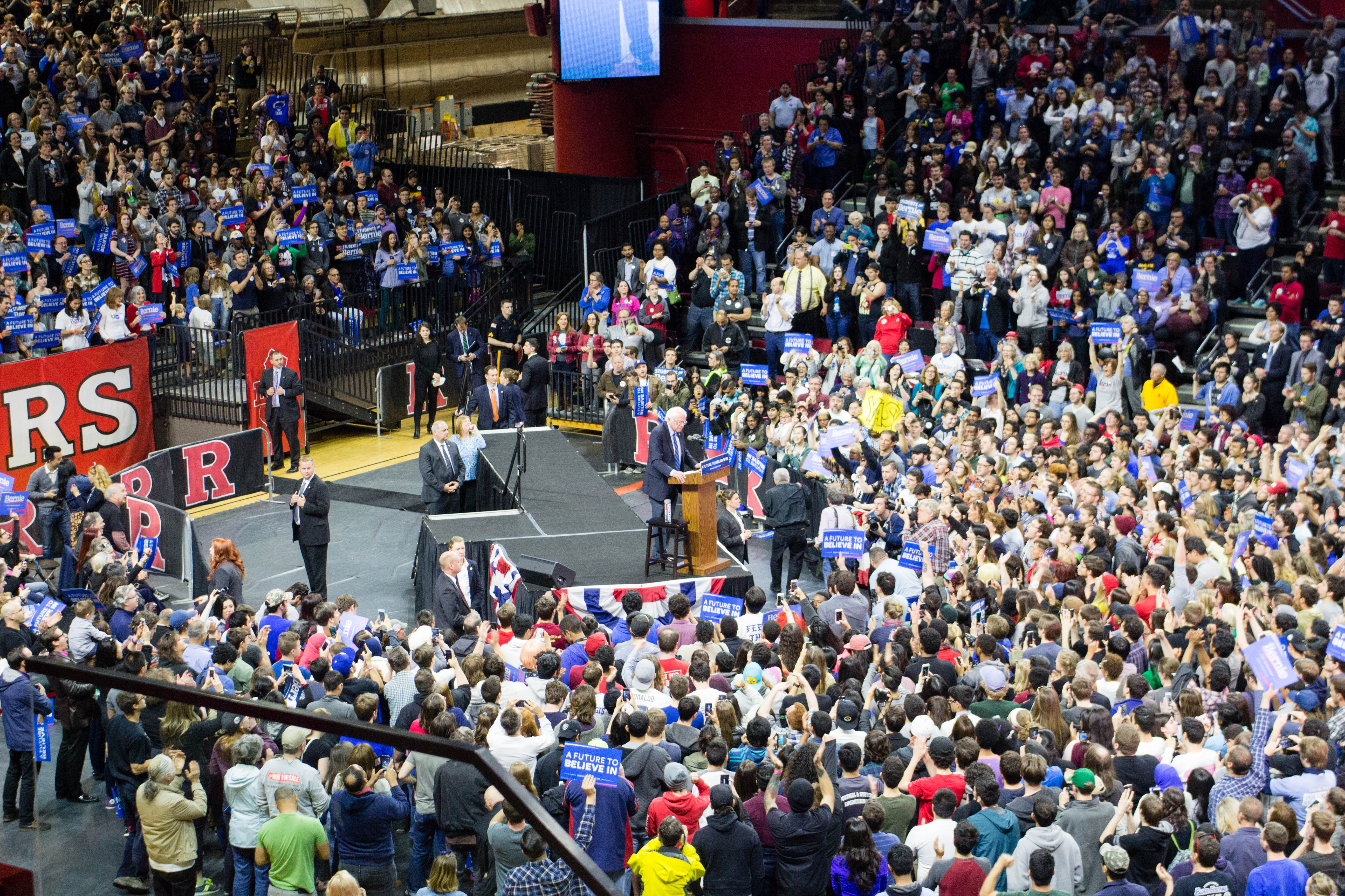 Bernie Sanders at Rutgers, May 2016